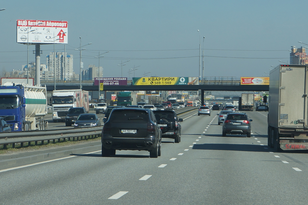 Mykoly Bažana avenue in Pozniaky district, Kyiv